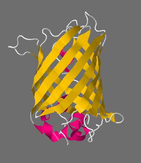 Structure of protein 1RRX.pdb, "green fluorescent protein". Colored by structure.